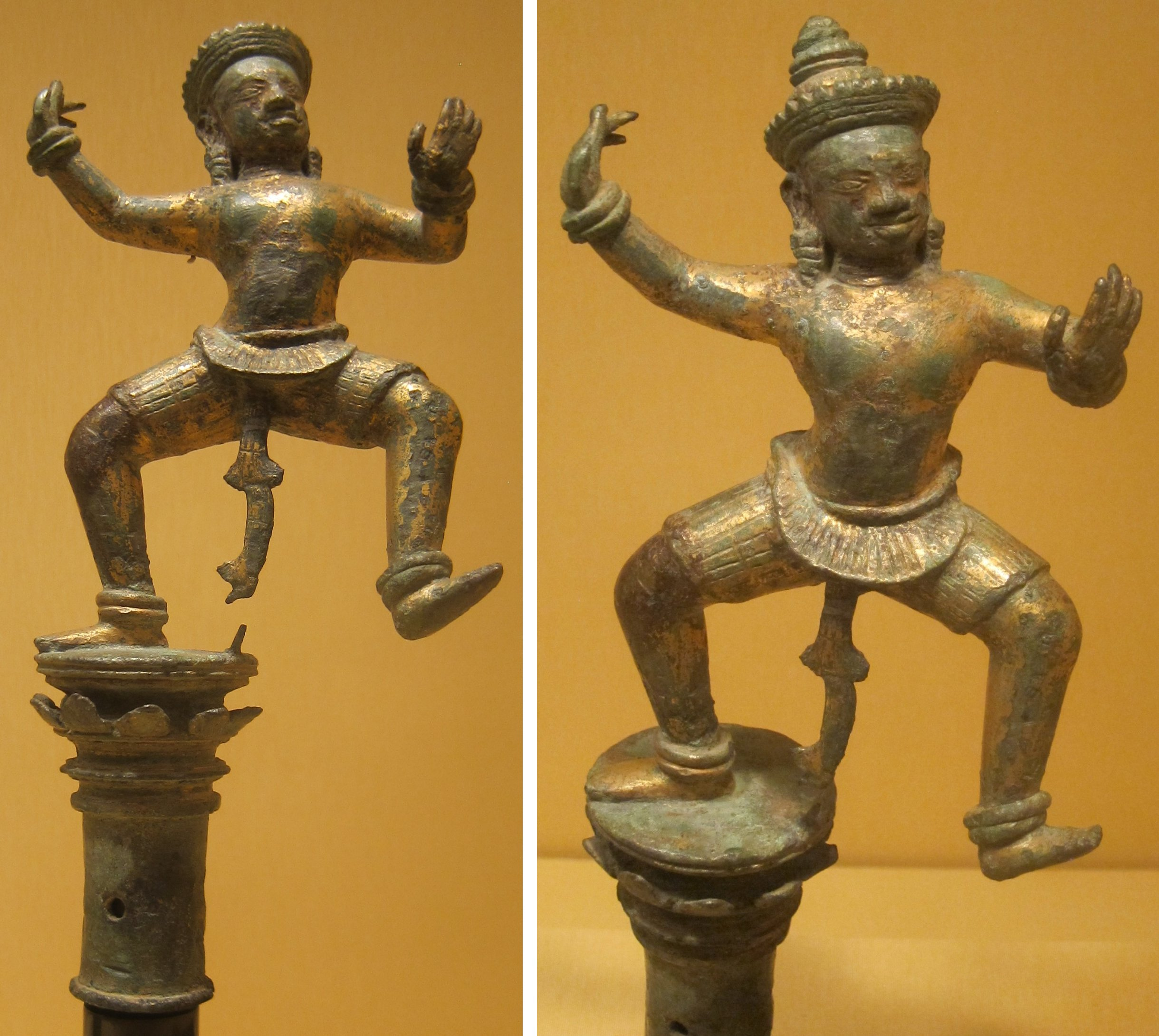 Finial with dancing figure from Cambodia, Angkorian style, 10th century, gilt bronze, Honolulu Academy of Arts